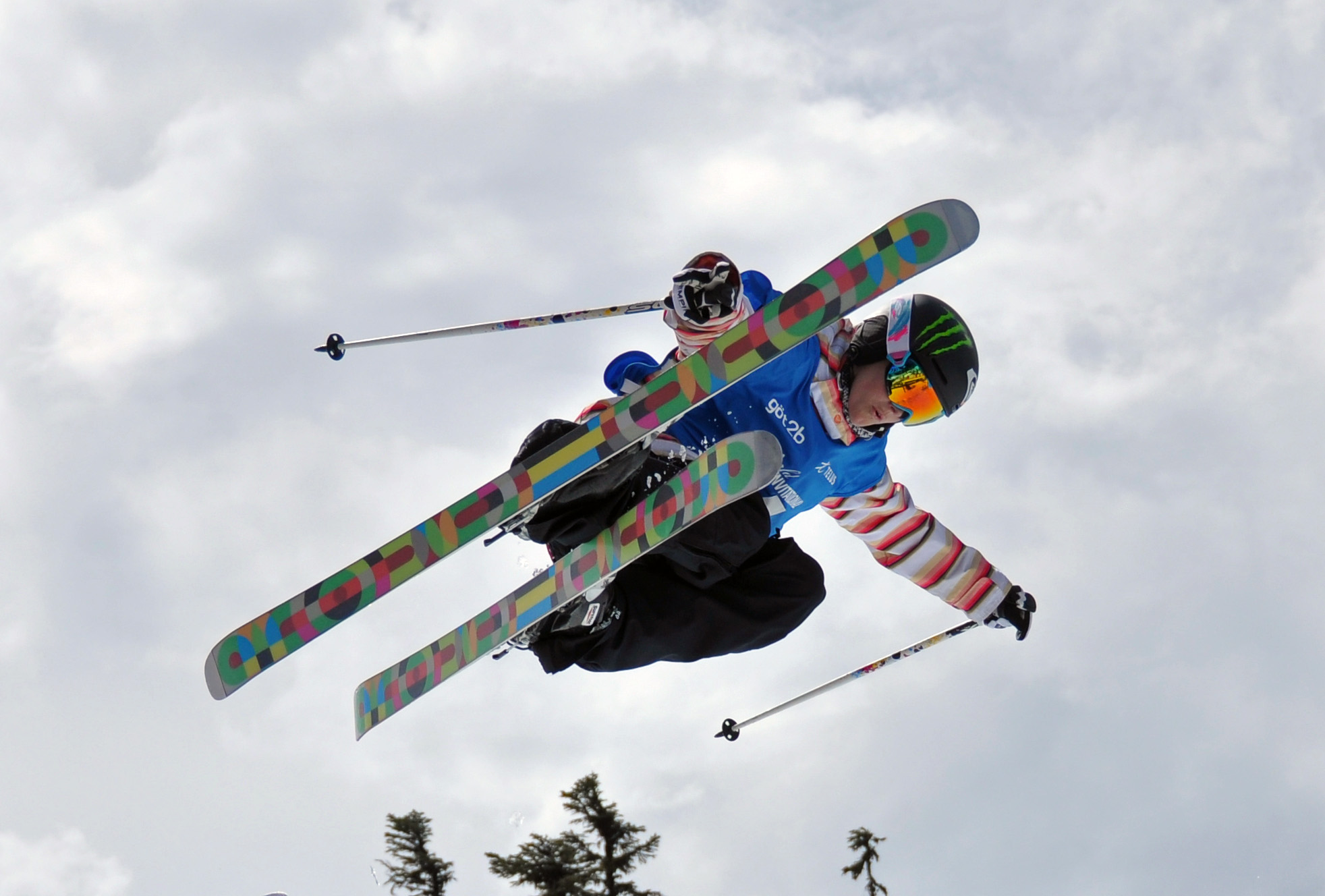 Sarah Burke, World Skiing Invitational Halfpipe qualifications View On Black